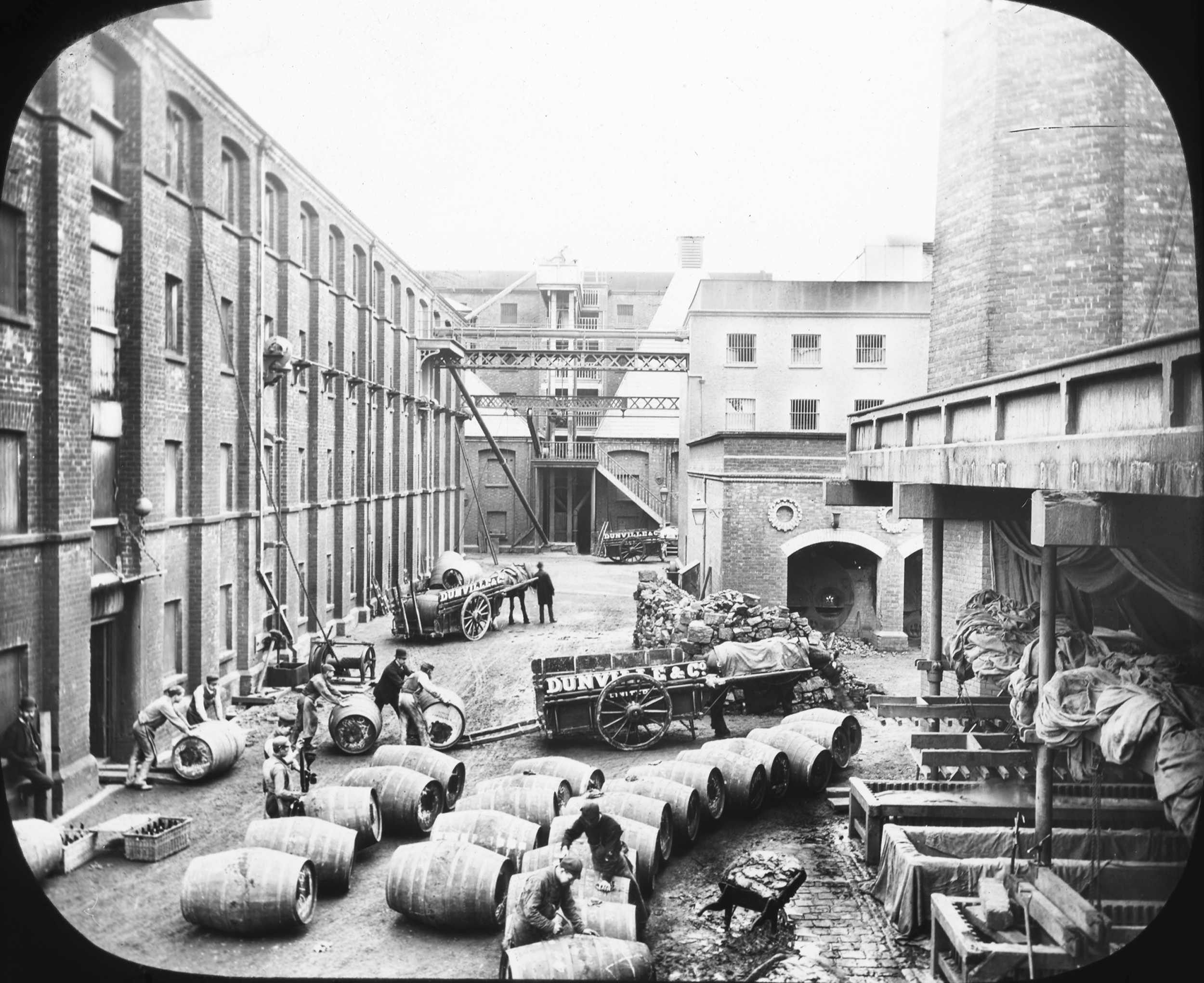 Delighted to be releasing an image from a newly catalogued collection into the wild. This is the first (hopefully of many) Mason Lantern Slides. This photograph features in our Working Lives, 1893-1913 exhibition at the National Photographic Archive in Temple Bar, Dublin. Photographer: Thomas H. Mason , 5-6 Dame Street, Dublin Date: Circa 1893-1913 NLI Ref.: M6/19